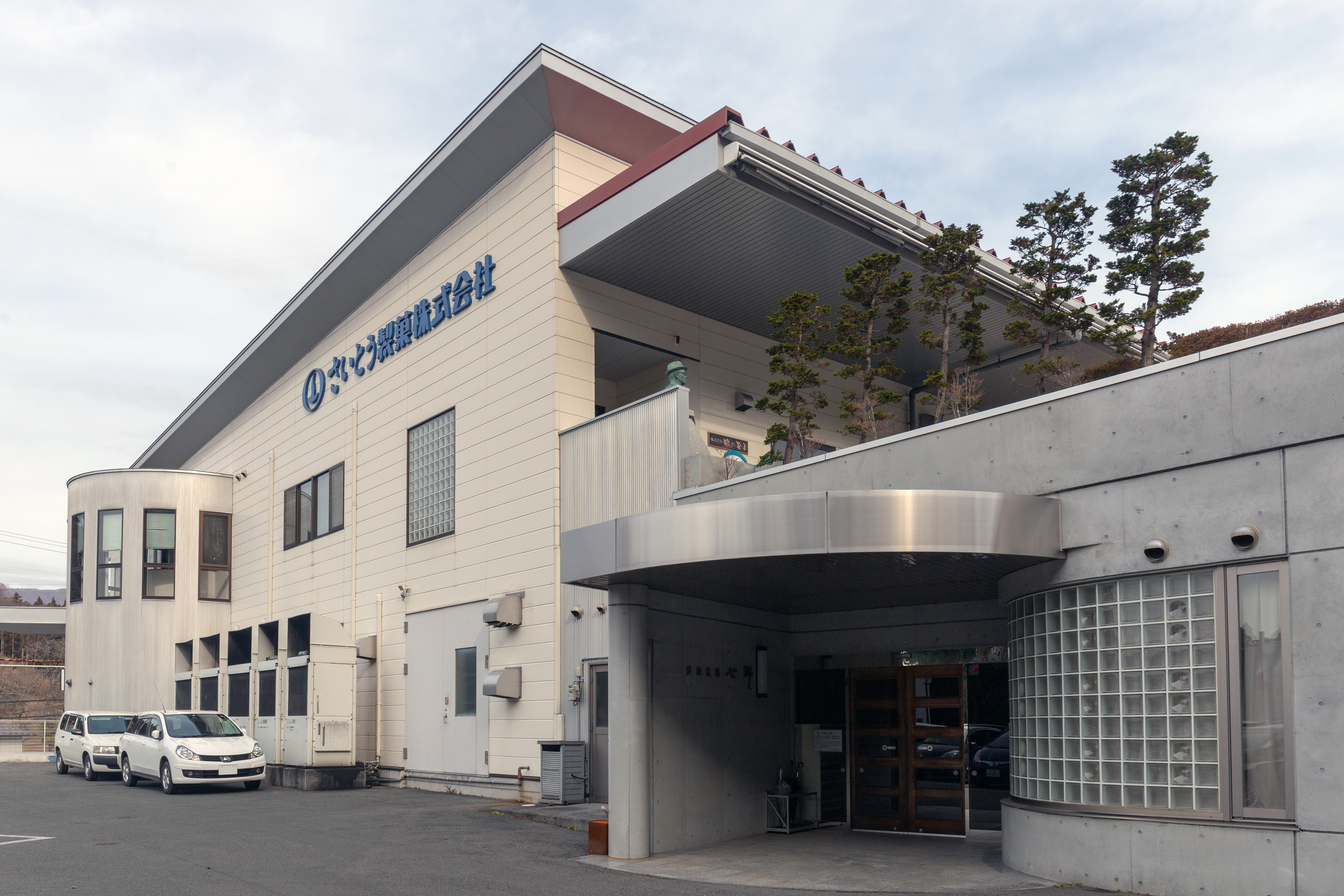 Headquarters of Saito Seika confectionery in Ofunato City, Iwate Prefecture, Japan